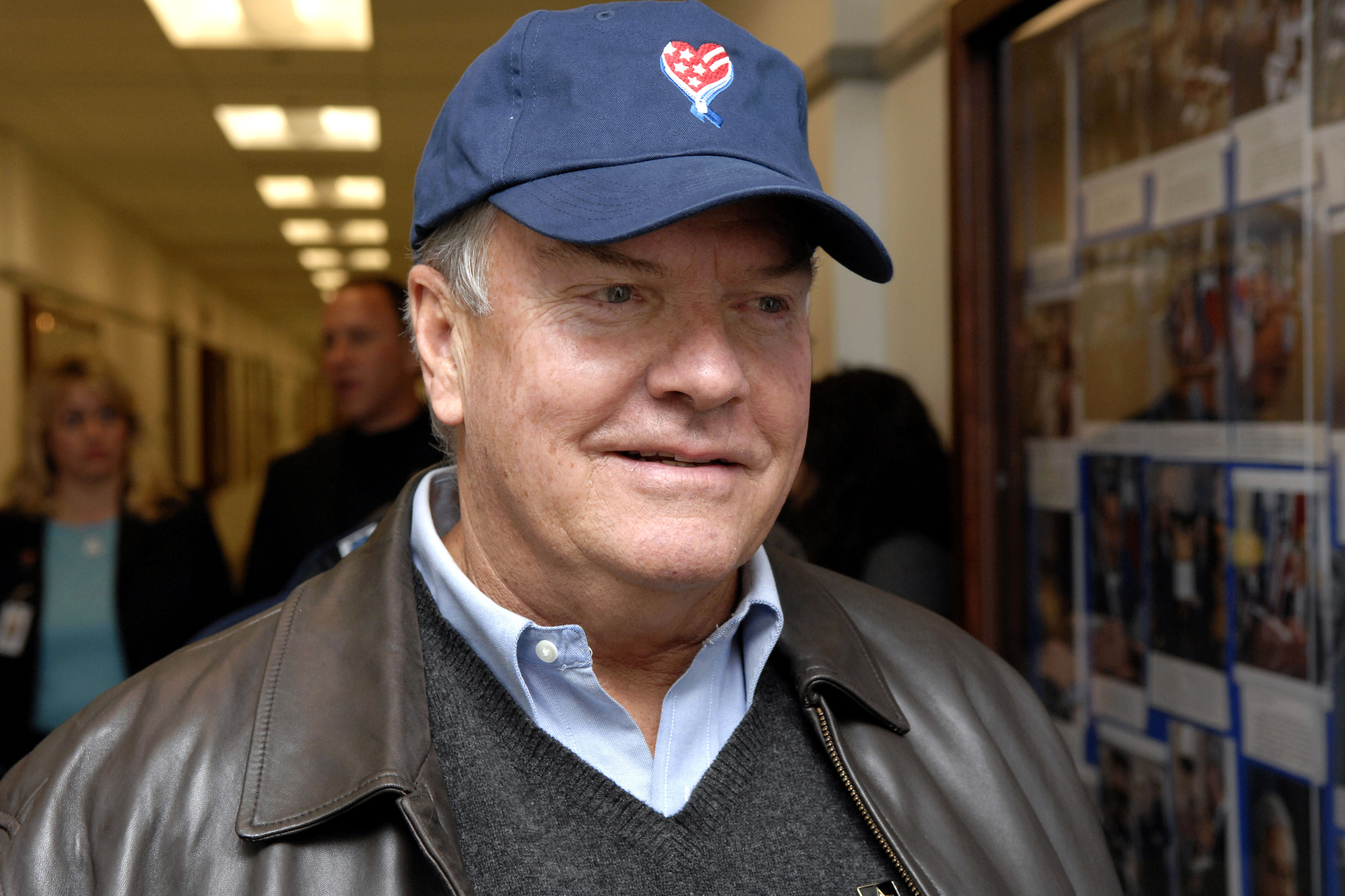 Peter Jason, an actor in Hallmark's movie "The Christmas Card," tours the Pentagon sporting an America Supports You cap Nov. 29. Cast members were in town visiting wounded servicemembers and promoting both the movie and Hallmark's "Cards for the Troops" program. Hallmark became an America Supports You team member Nov. 28.